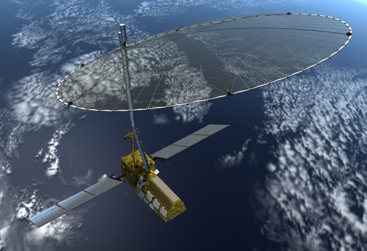 Artist concept of the Nasa-Isro synthetic aperture radar (NISAR) satellite in orbit.